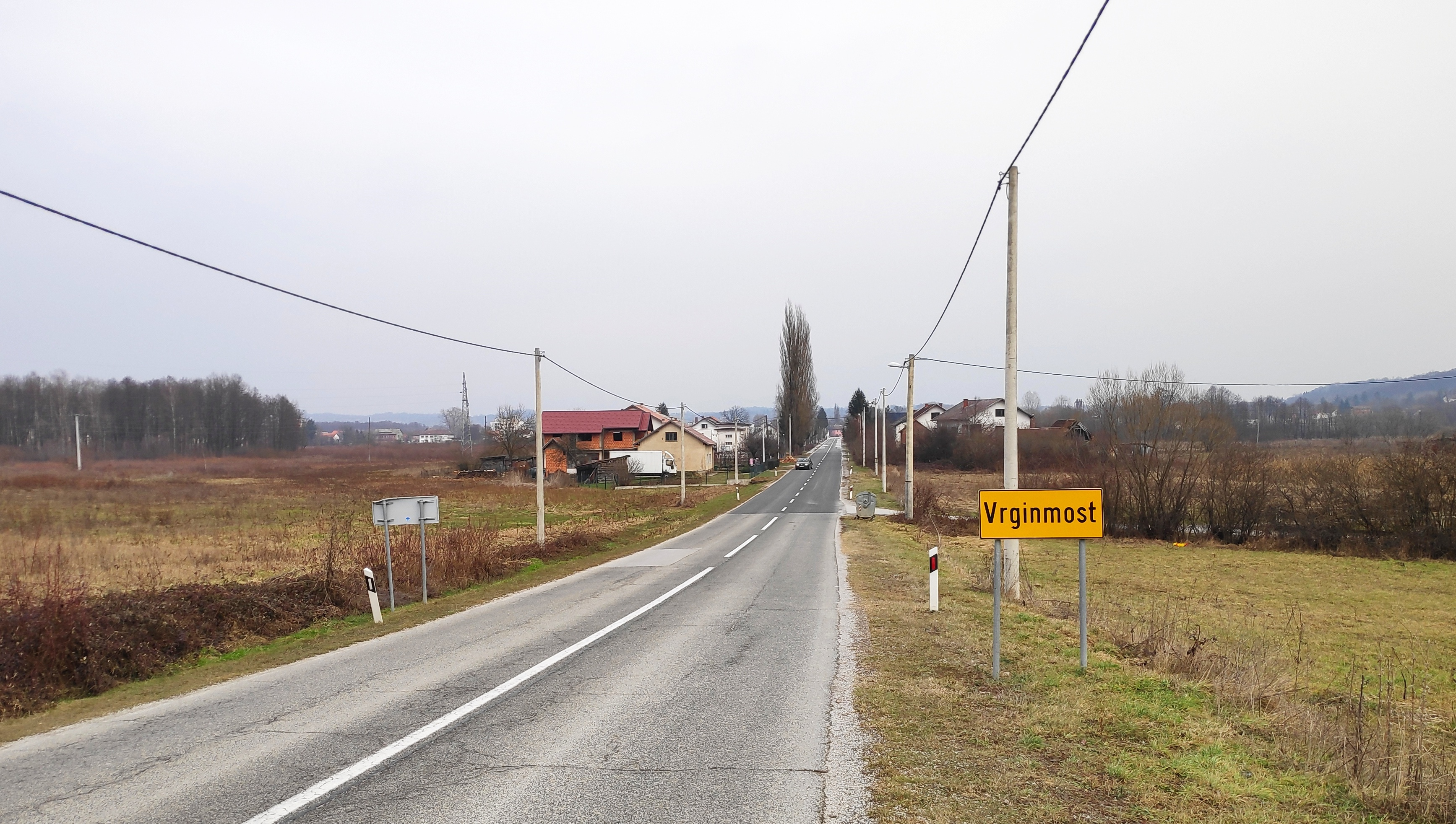 Vrginmost, Croatia